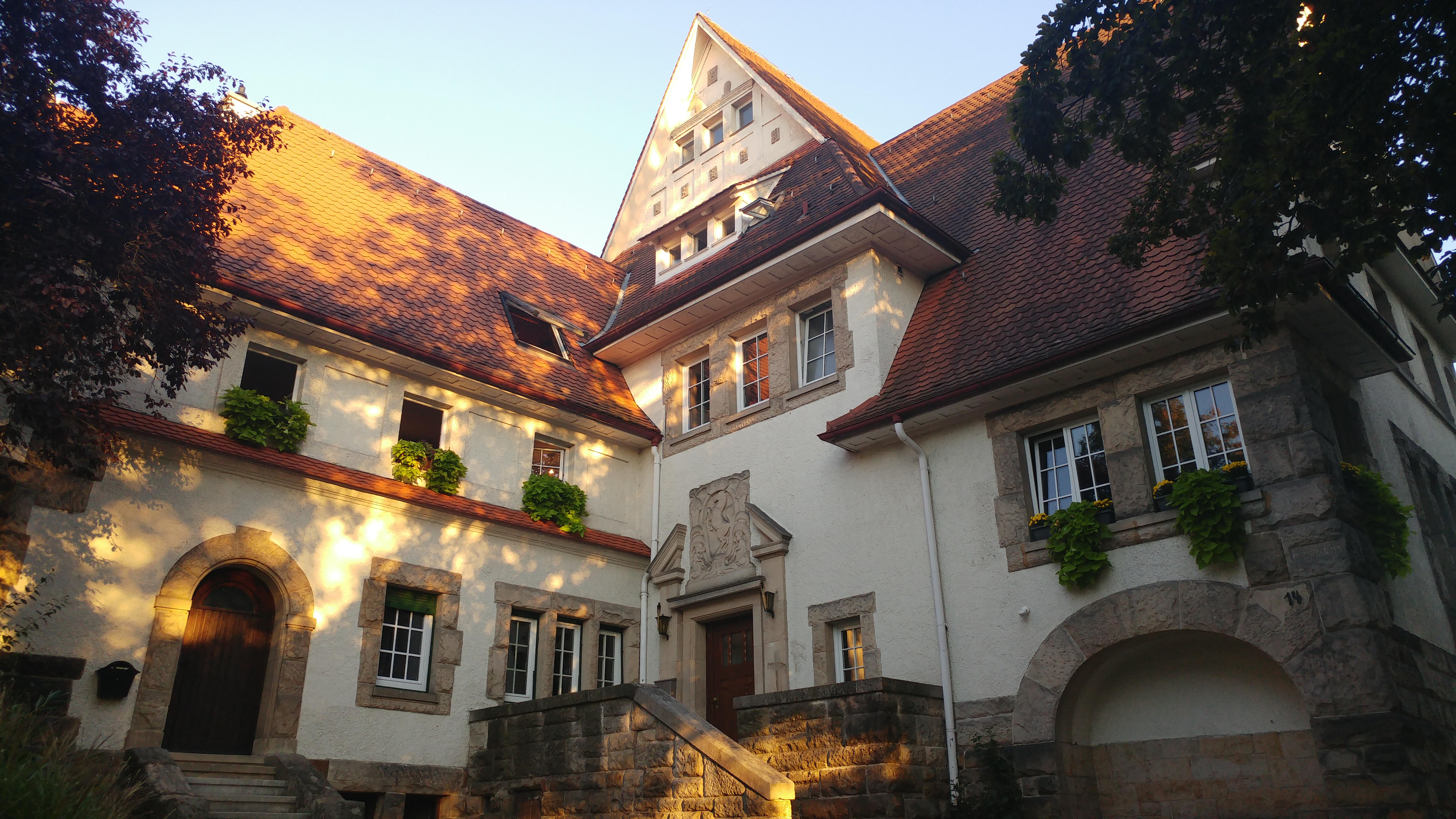 Front view of the fraternity house of the Academic Society Stuttgardia